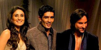 Indian actor Saif Ali Khan along with actress Kareena Kapoor and designer Manish Malhotra at the 2009 India Couture Week